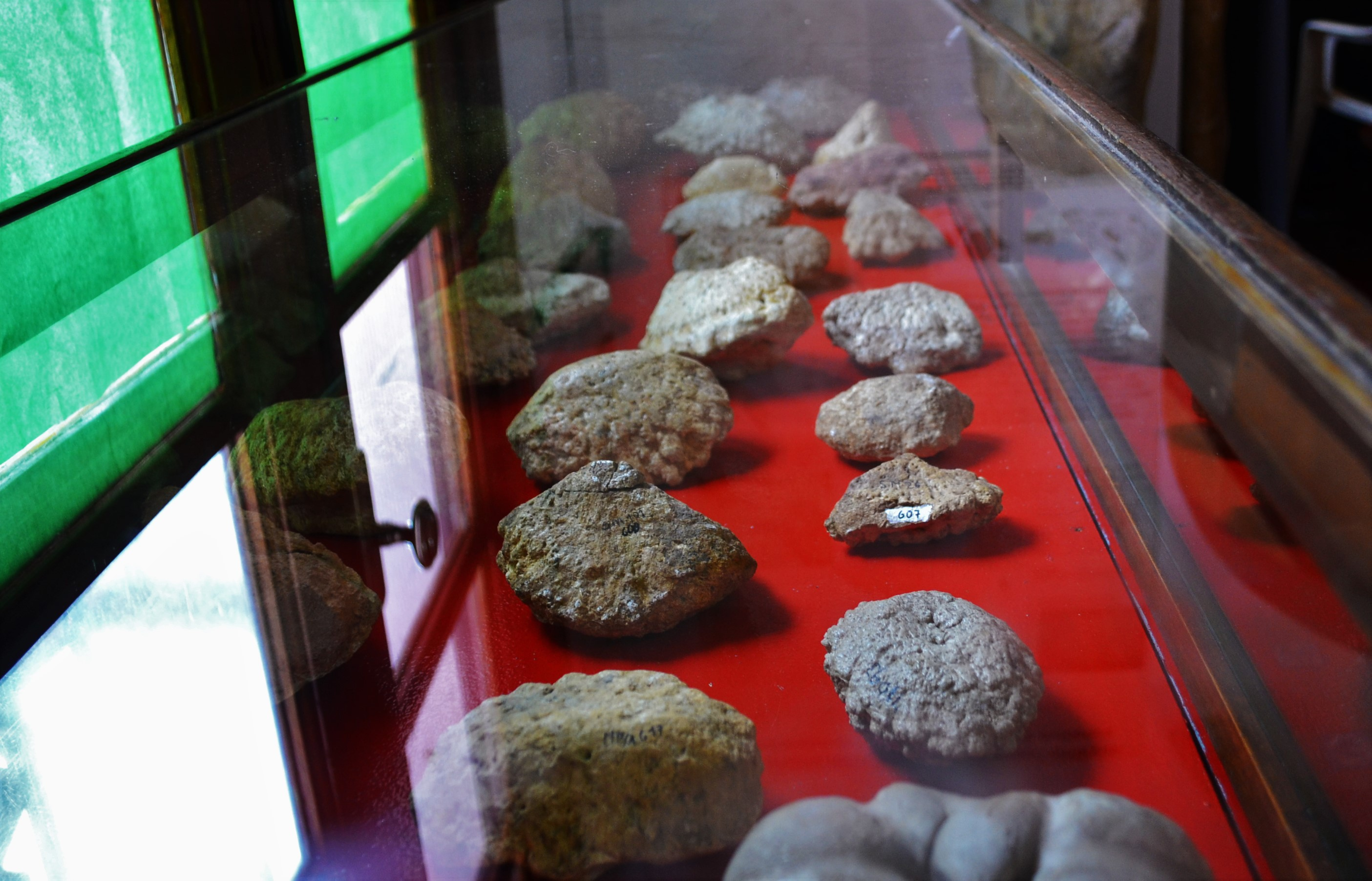 Osteoderms assigned to titanosaurs from the localities of Salitral Moreno and Pellegrini Lake/Cinco Saltos (Río Negro Province, Argentina) in outcrops located in the formations Allen and Anacleto (Upper Cretaceous).